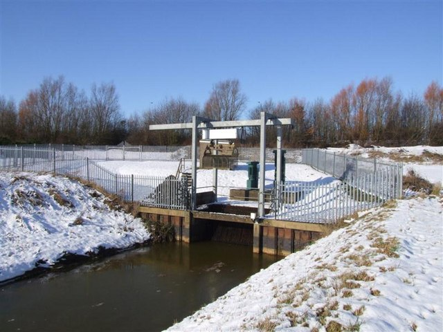 Rings End Pumping Station